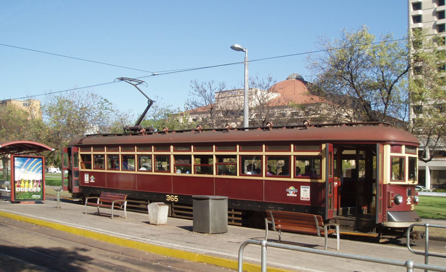 Glenelg Tram - H-class tram no. 365 in Victoria Square, Adelaide. 11.15 departure to Glenelg, 9 May 2005.